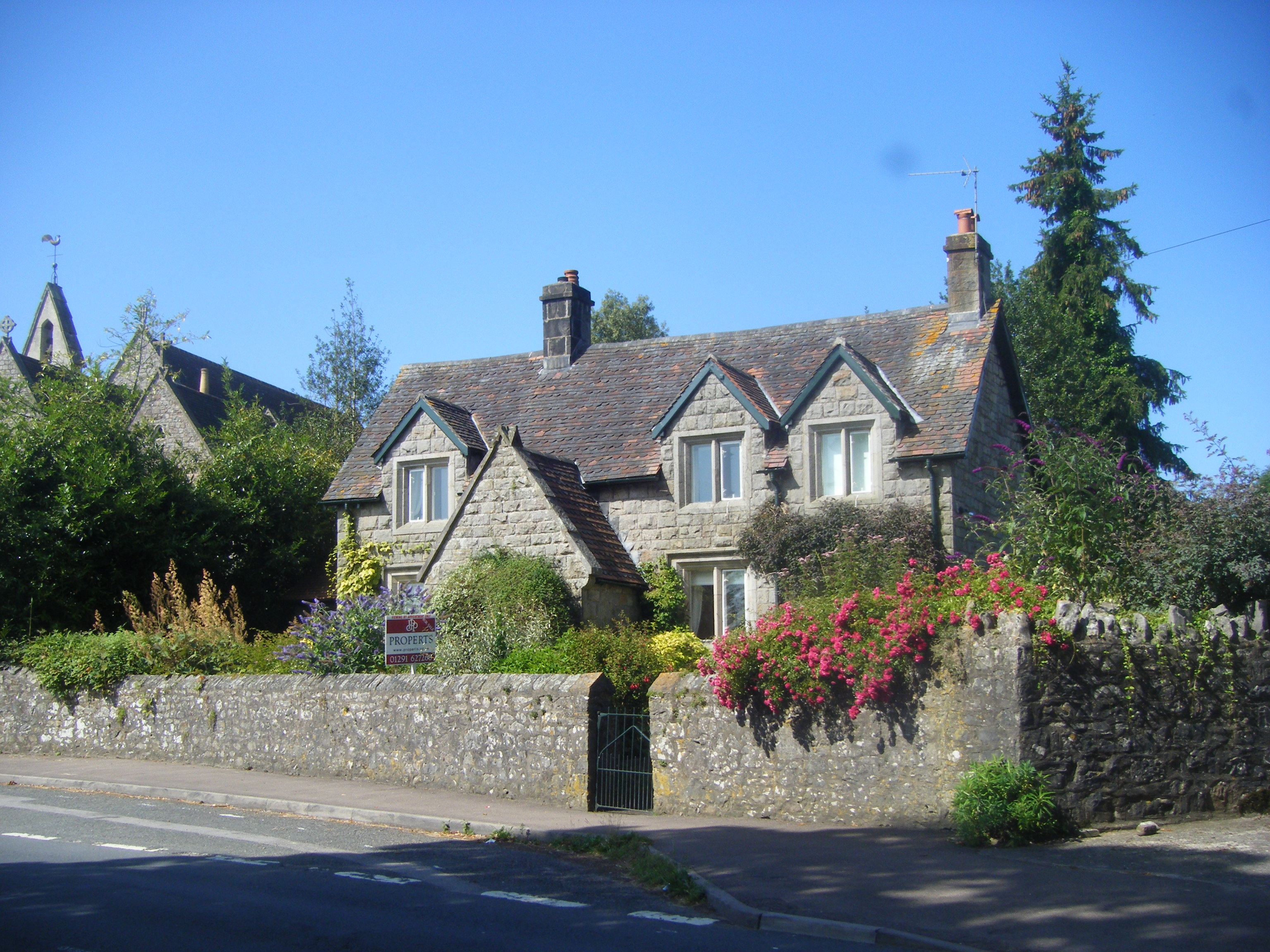 Photo of Church Cottage, Tutshill, Gloucestershire, England